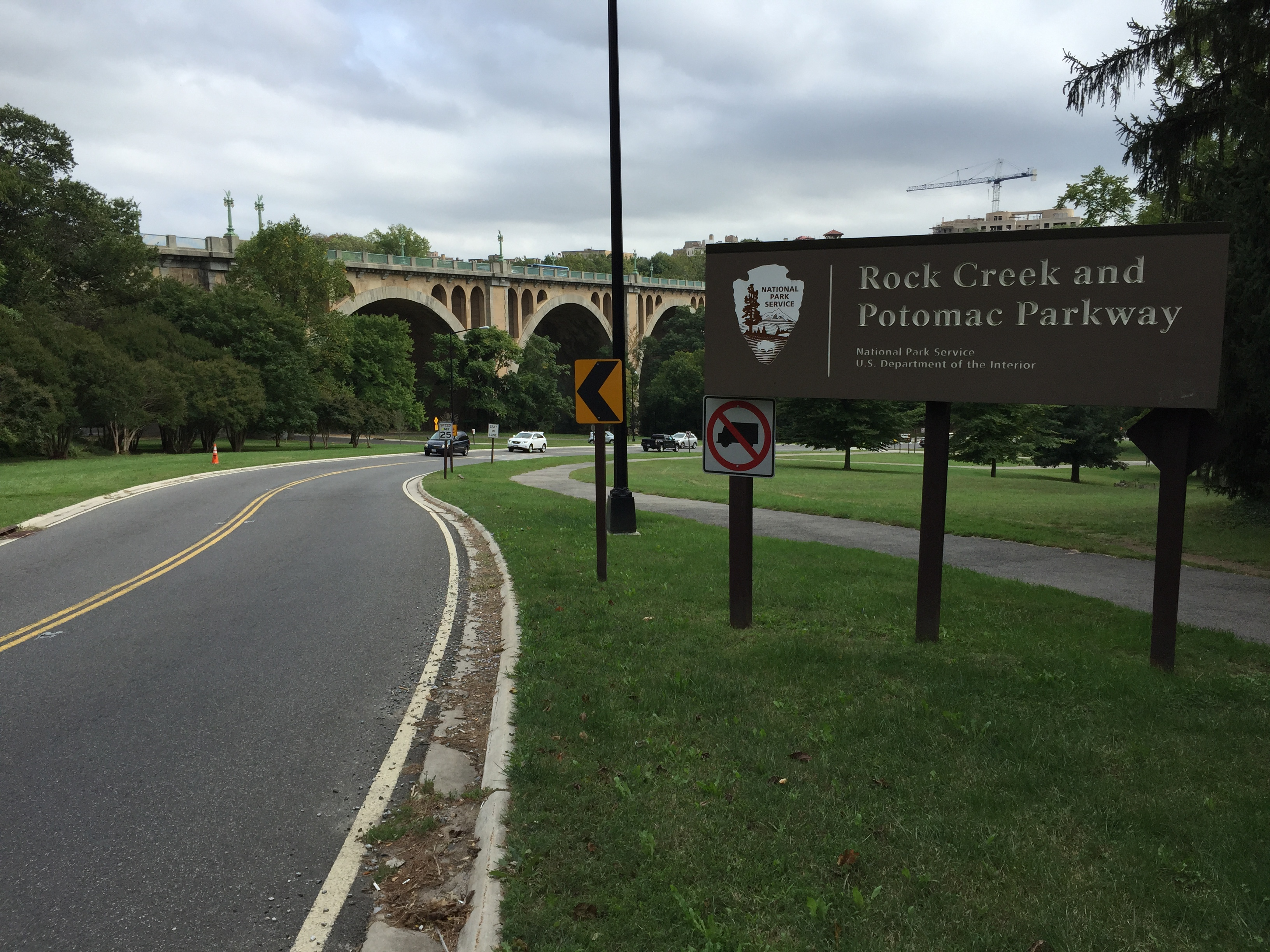 View south along the Rock Creek and Potomac Parkway at Calvert Street NW in Washington, D.C.